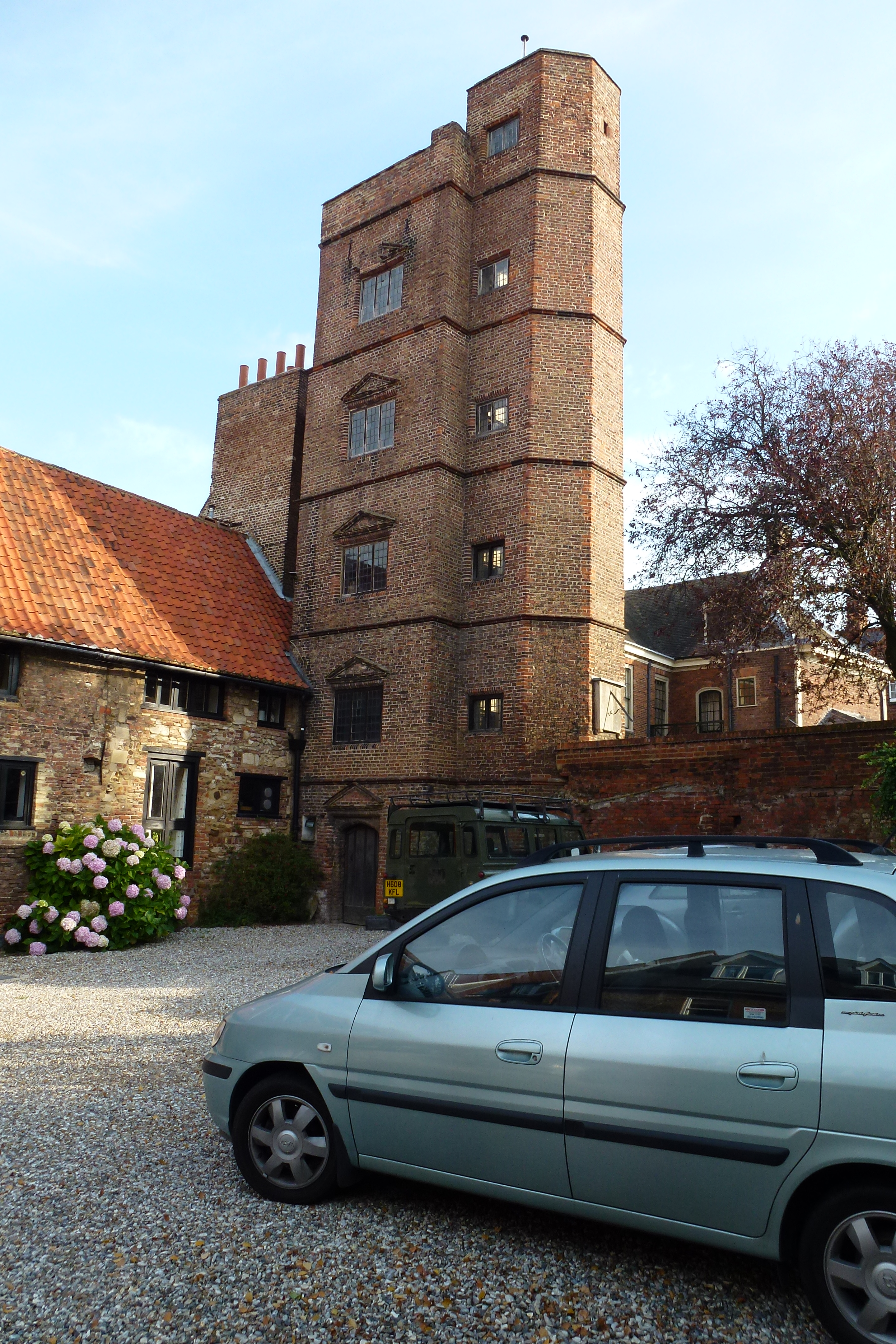 medieval merchants tower built in the 14th century. Situated on the river great Ouse, Kings Lynn.